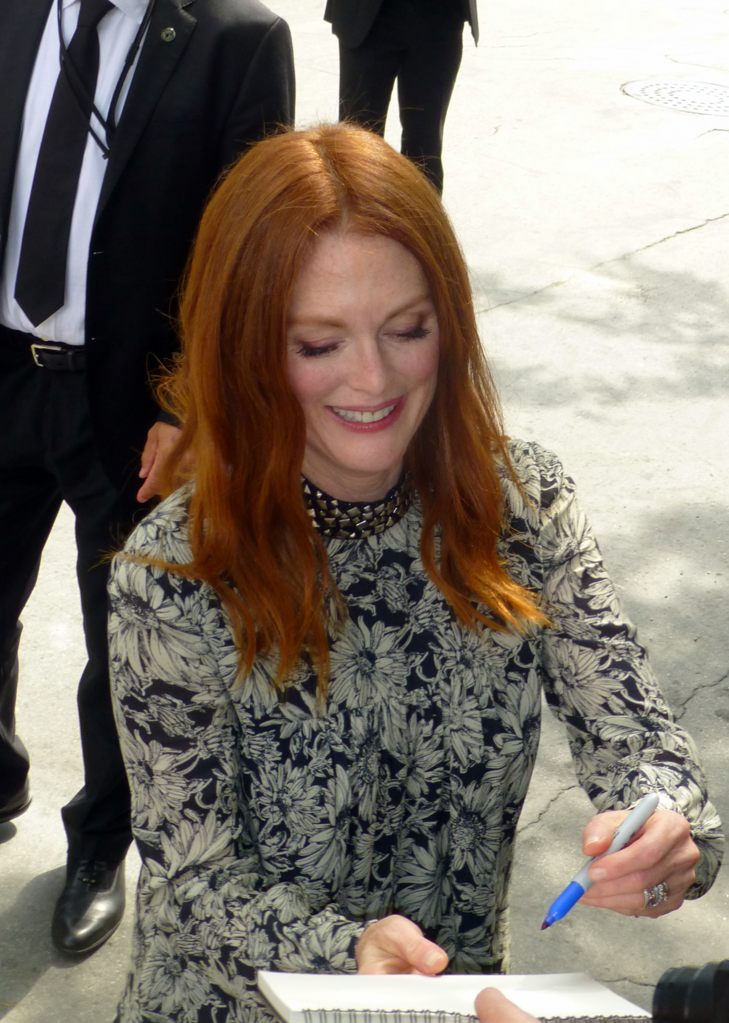 Julianne Moore at the Lightbox before The Conversation with... , 2015 Toronto Film Festival